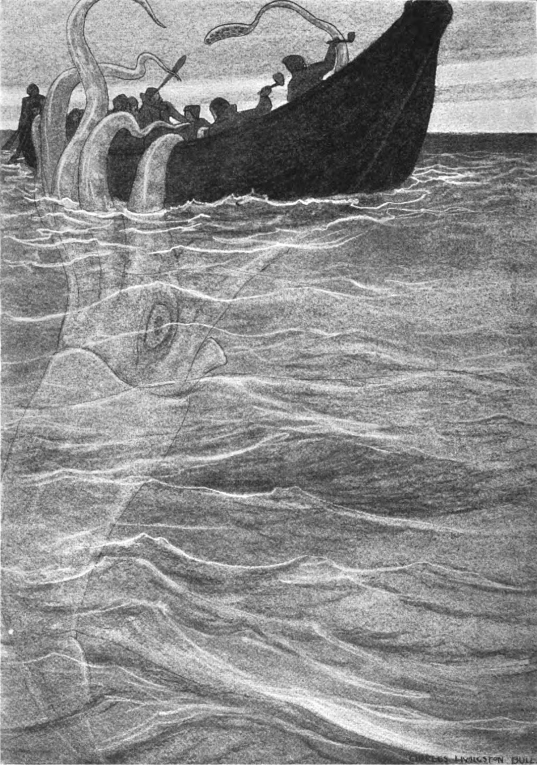 Fictional depiction of a giant squid seizing a boat